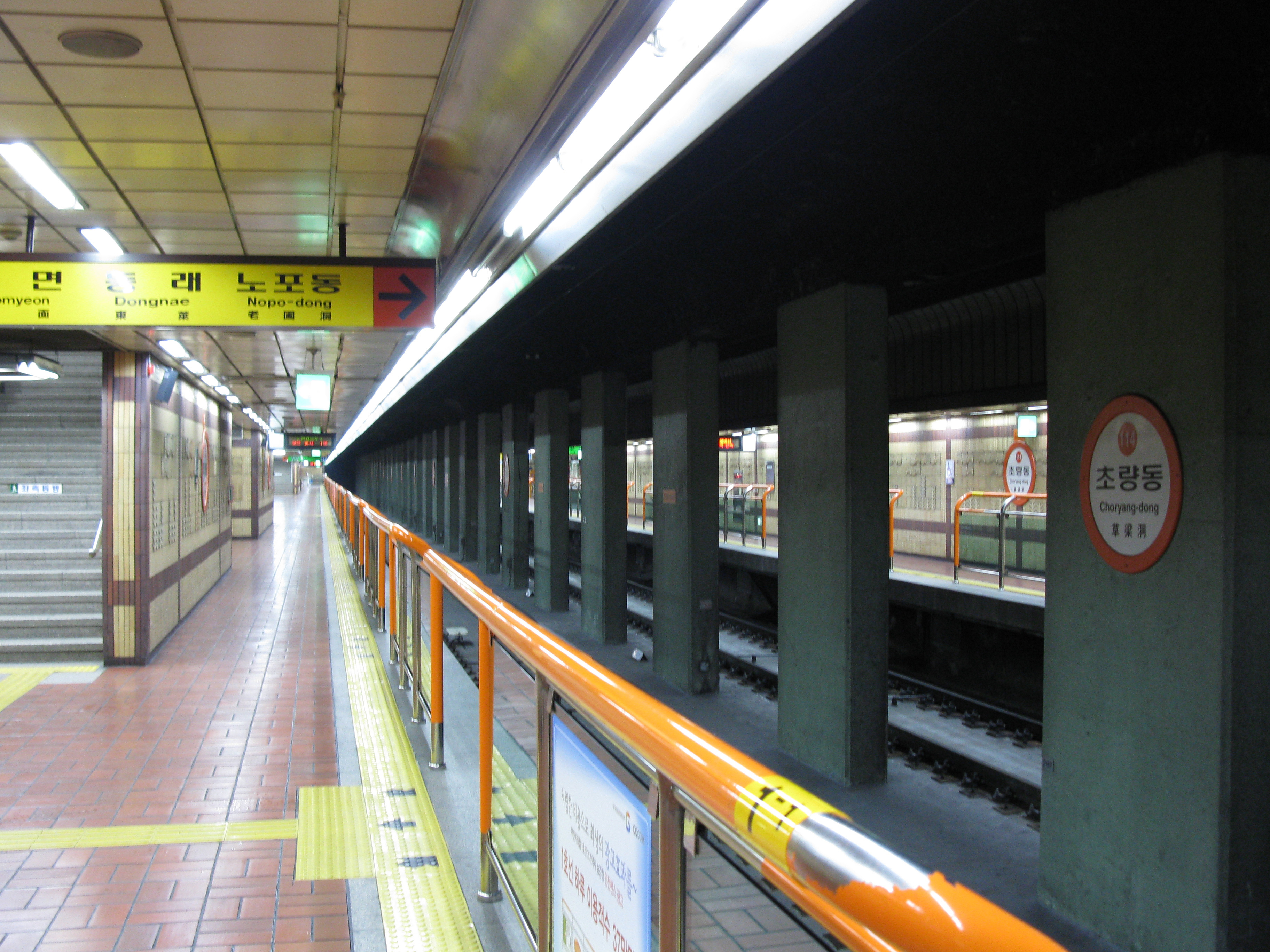 Choryang-dong Station platform (Busan Subway Line 1)